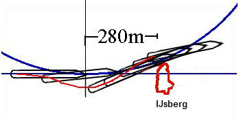 Dutch translated version of the German image (see below)